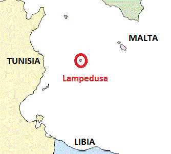 Location Map of Lampedusa (italian)